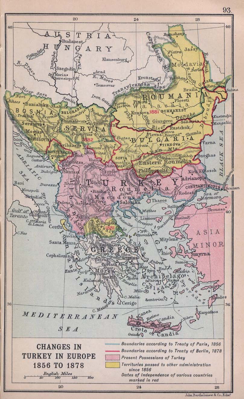 Balkan changes after the Crimean War, from Literary and Historical Atlas of Europe, by J.G. Bartholomew, 1912